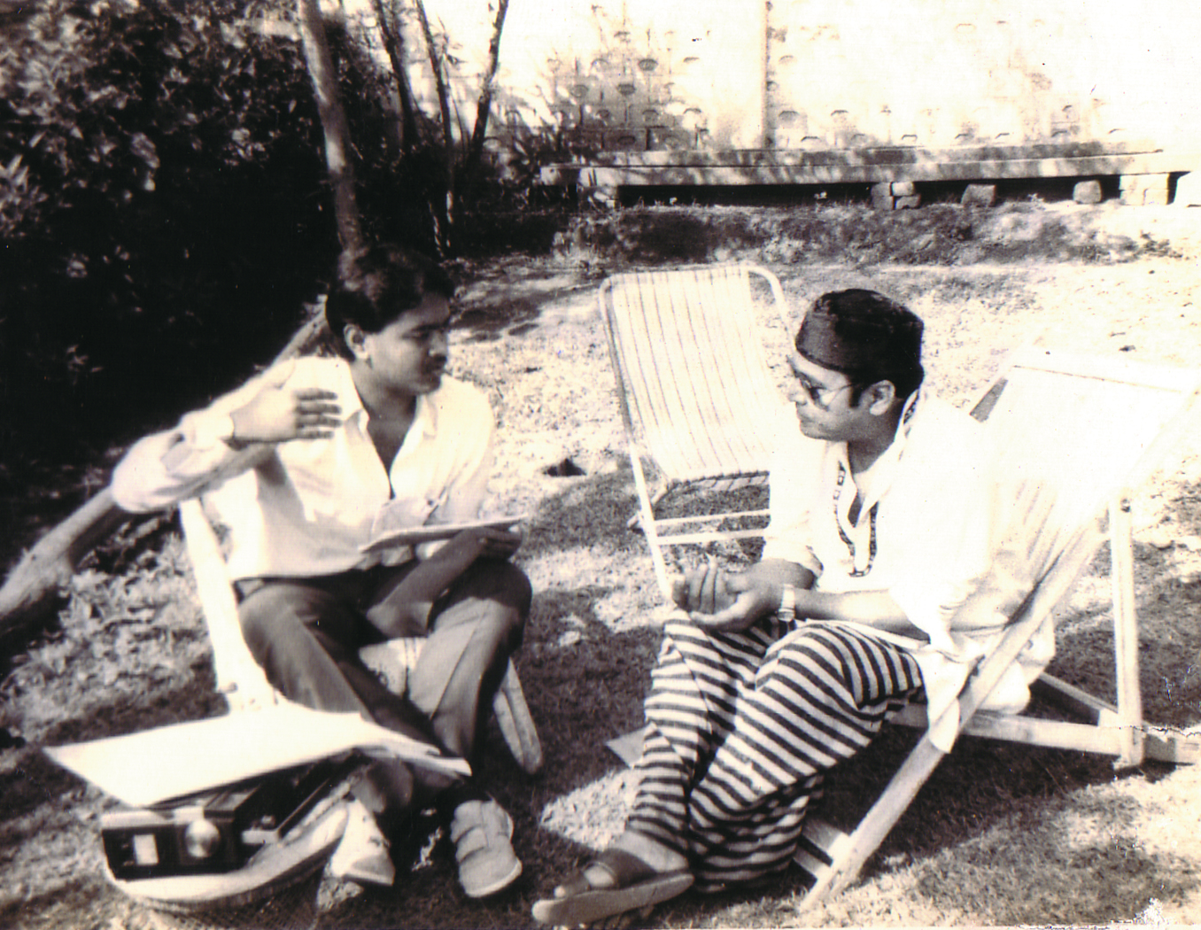 Arnab Jan Deka with Dr Bhupen Hazarika narrating a film script (1986)